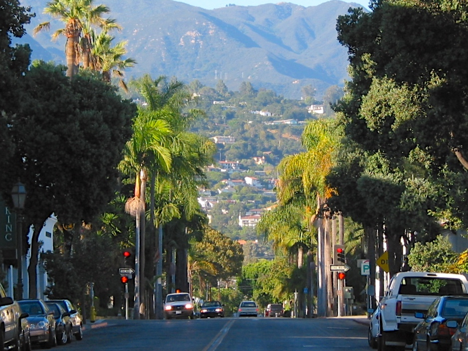 Santa Barbara street scene, with the Santa Ynez Mountains behind.